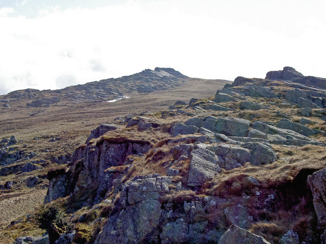 Approaching the summit ridge of Craig Eigiau, near to Llyn Eigiau Reservoir, Conwy County, Wales.